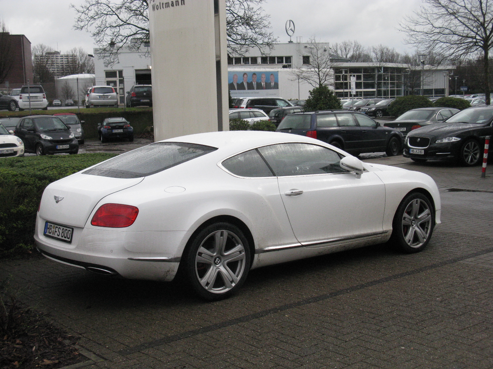 Bentley Continental